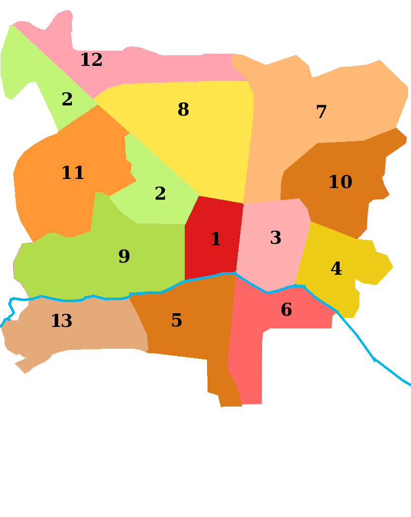 The eleven "mantaqeh" of Isfahan.